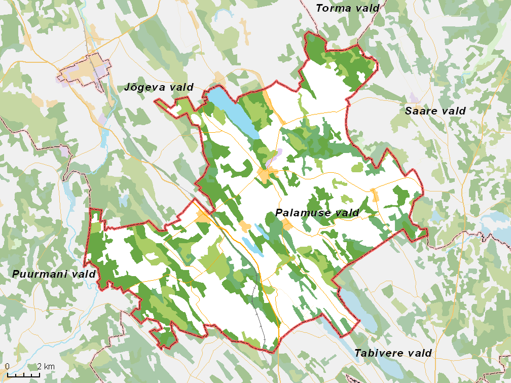 Map of municipality in Estonia